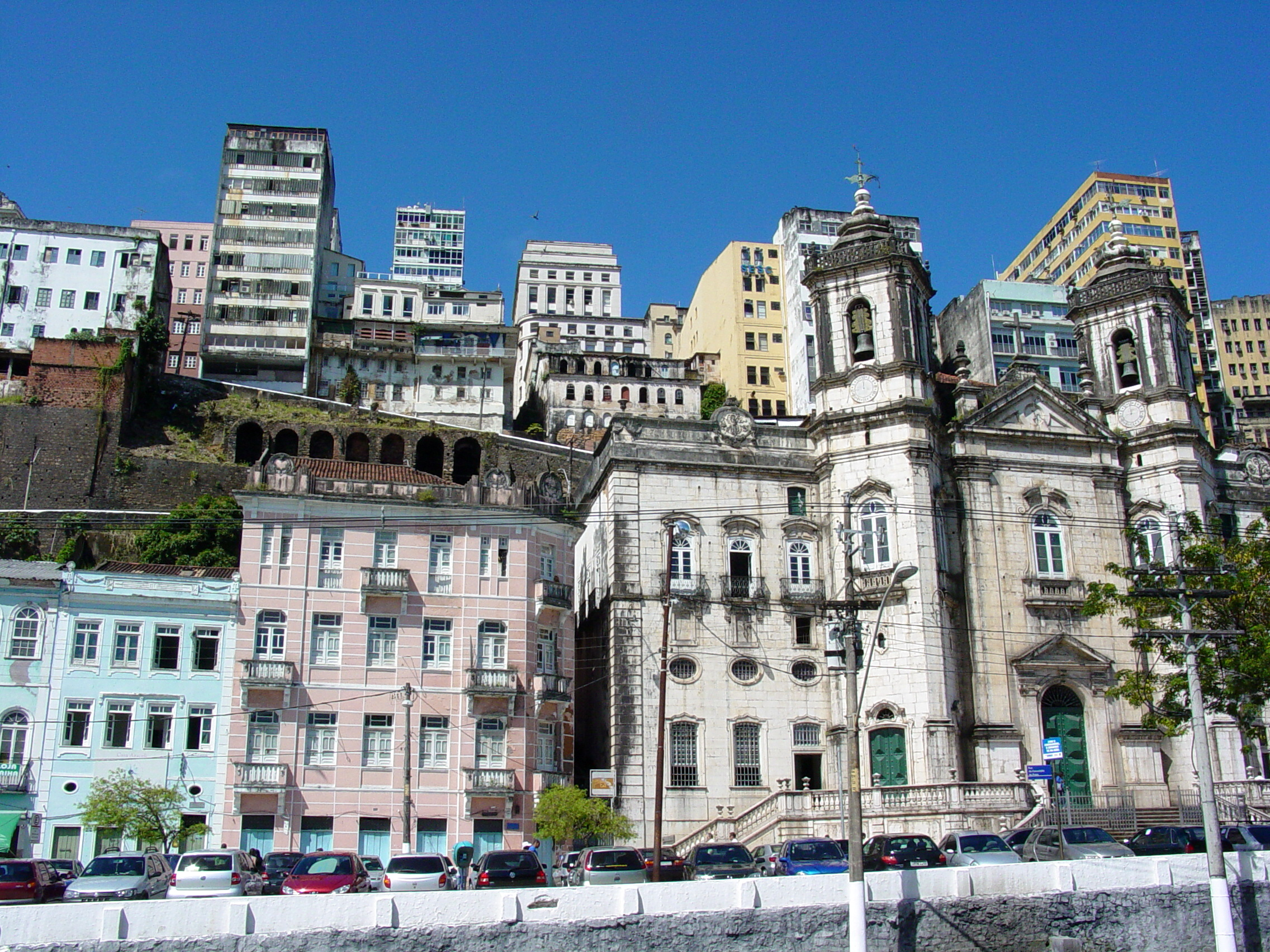 Building facades viewed from harbor in Salvador, Bahia state, Brazil. July 2006.